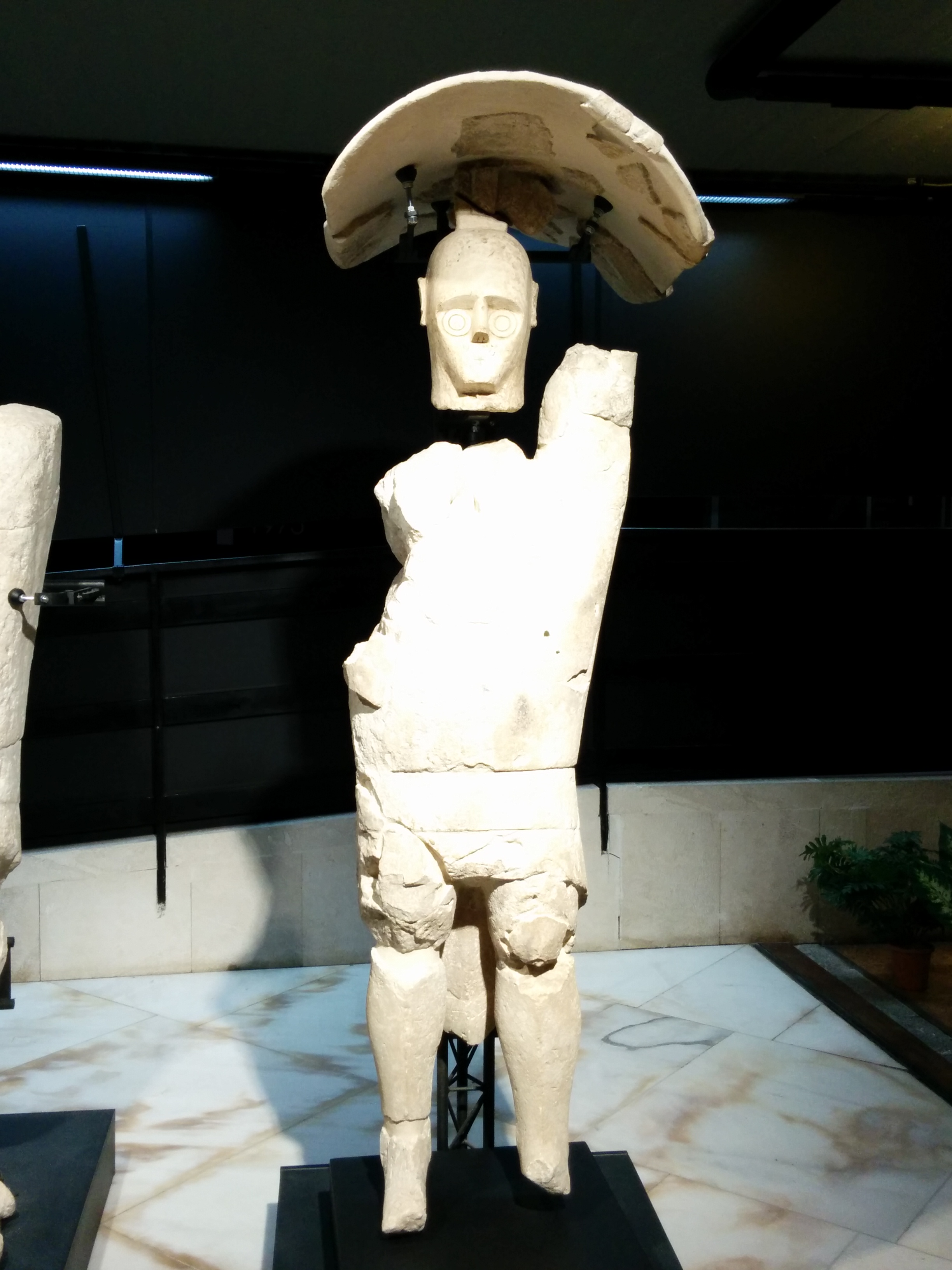 Giganti di Monte Prama -Soldier with shield or "boxer" at Museo archeologico nazionale di Cagliari.